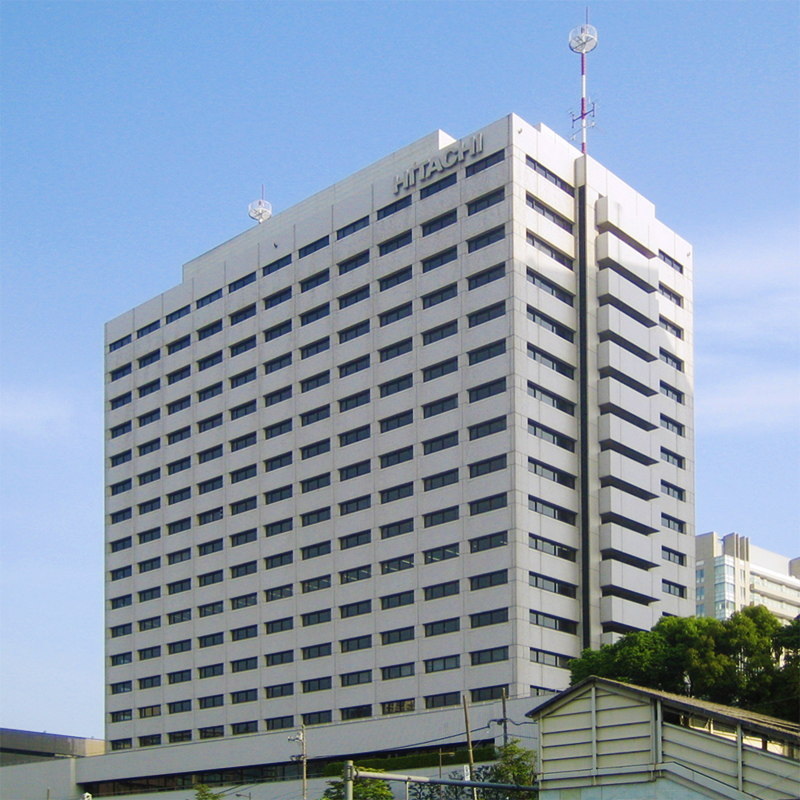 Hitachi, Ltd. (日立製作所), in Chiyoda, Tokyo, Japan